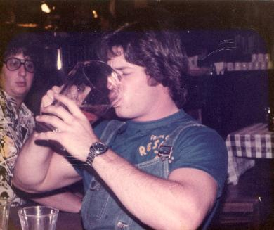 Steven Petrosino during his successful June 1977 Guinness World record attempt at the Gingerbreadman Pub in Carlisle, Pennsylvania. He established records for 0.25 l (0.137 s), and for 0.5 l (0.4 s), but Guinness published only the record for 1 litre.